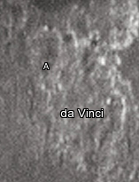 Da Vinci lunar crater as seen from Earth with satellite craters labeled